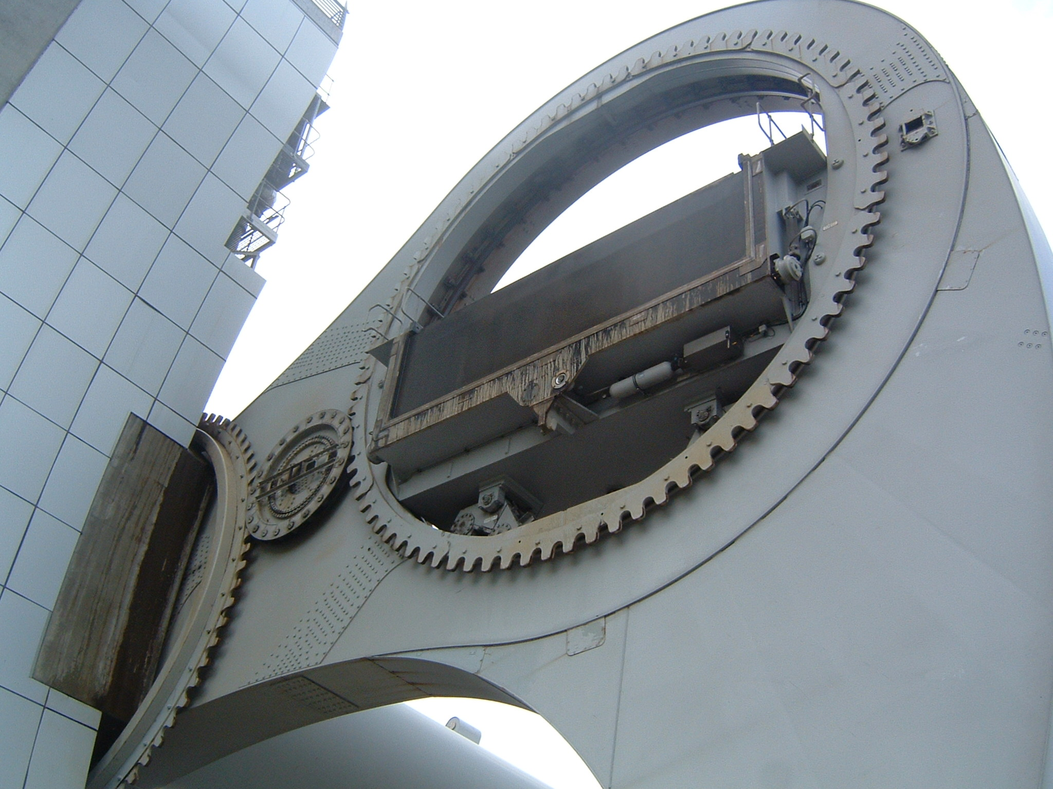 Showing the ring gears.